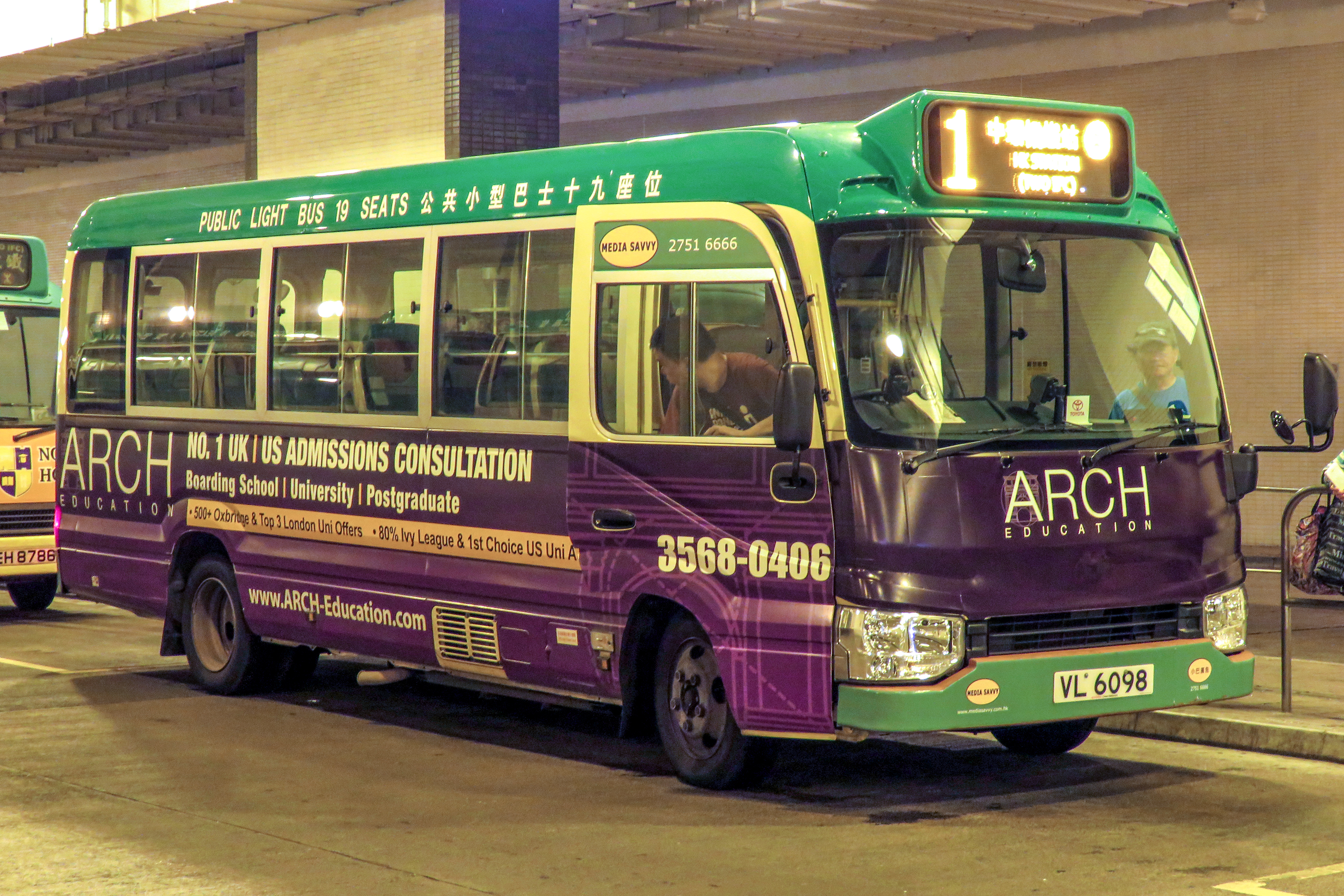 Taken after arrival - the more efficient way from The Peak to downtown, front-engined with up to 19 vacant seats.